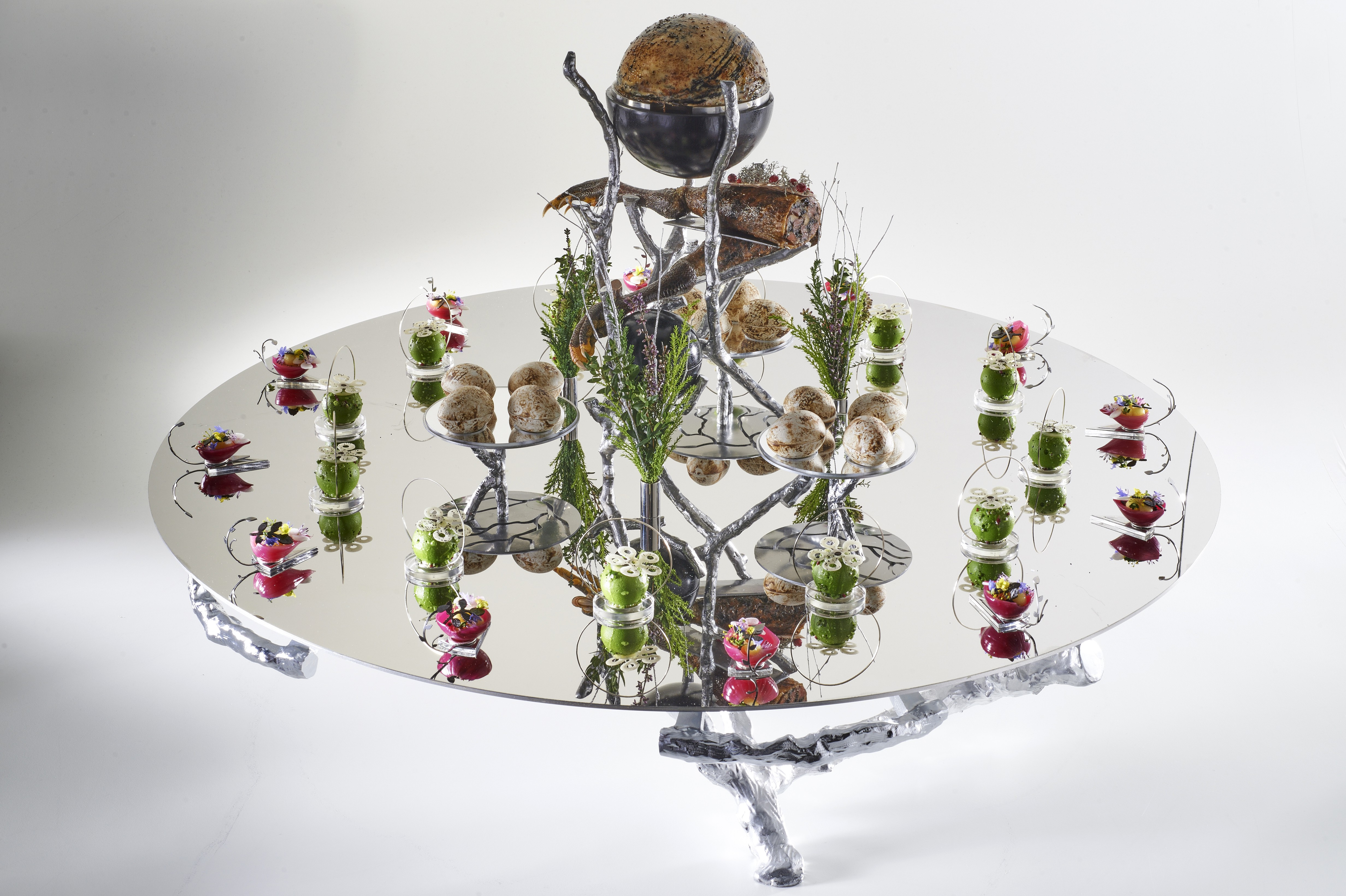 Meat dishes of the Finnish team (chef Matti Jämsén) displayed, winning Bocuse d'Or 2015 special price for best meat dish display.